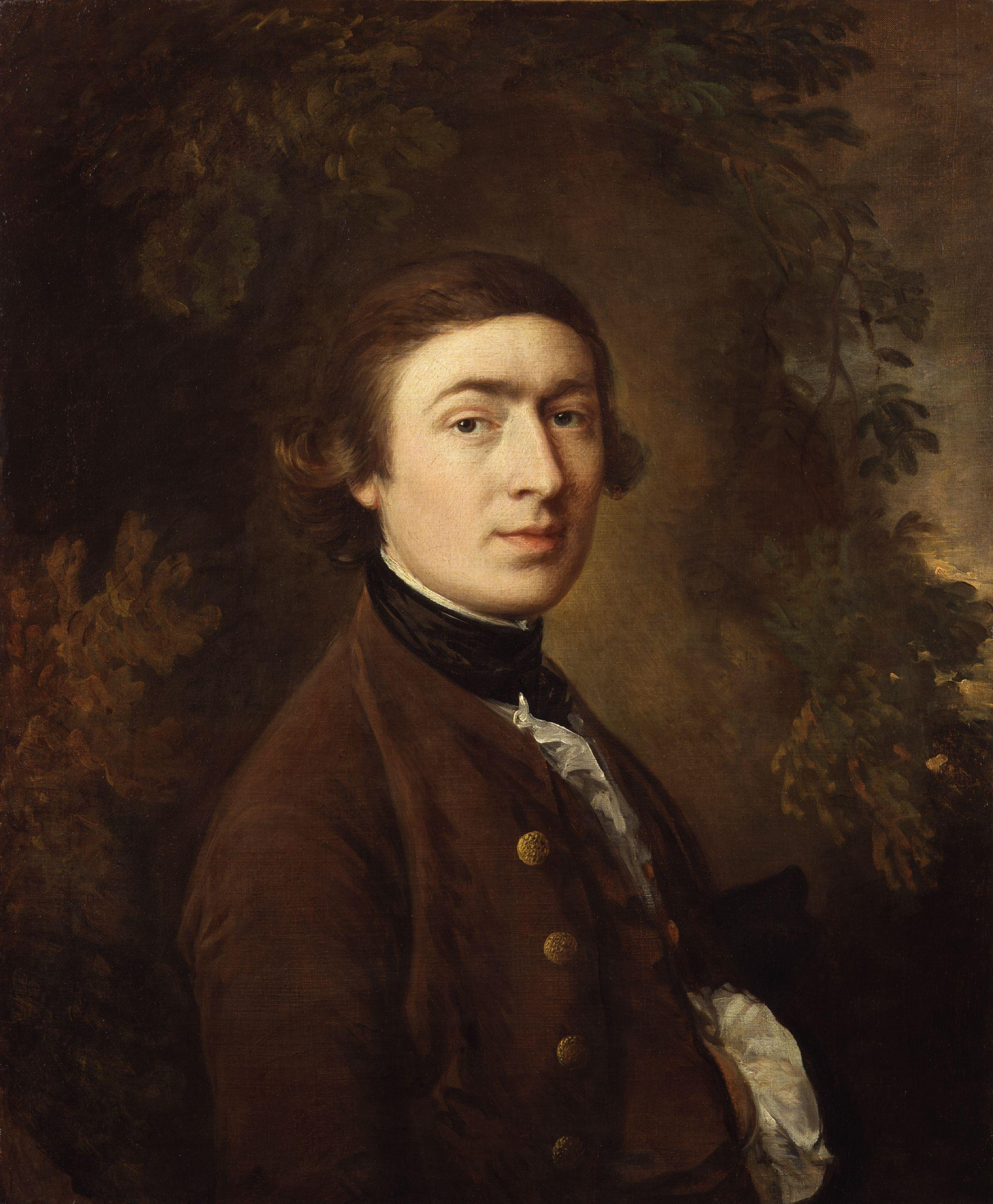 All images in this batch have been confirmed as author died before 1939 according to the official death date listed by the NPG.